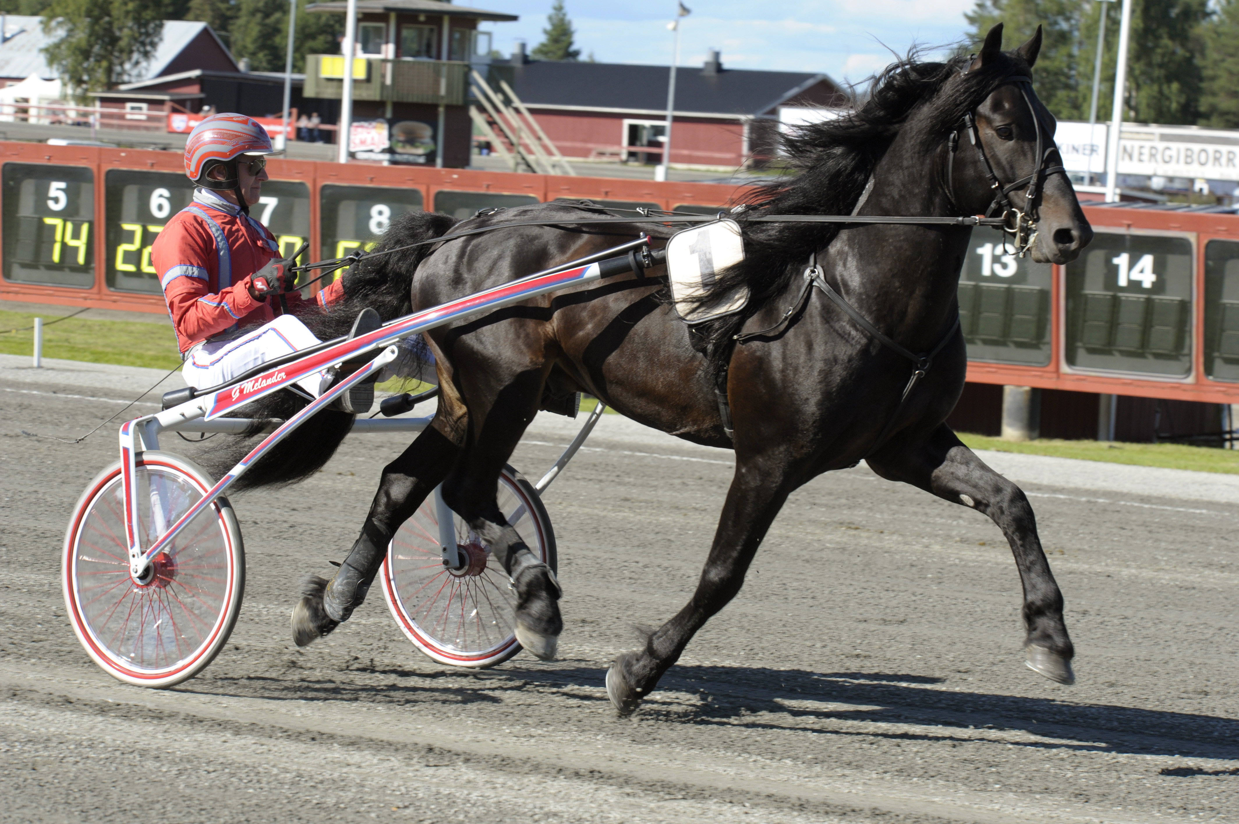 Leif Norberg ALN. Skellefteå 130810